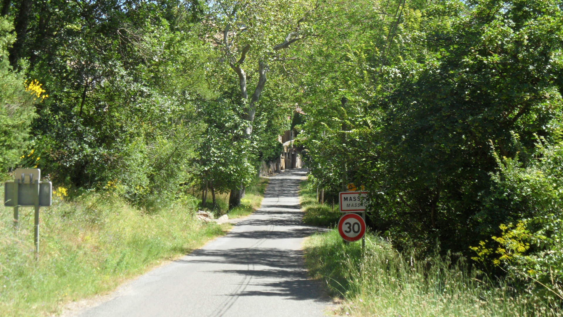 Massac, Aude, France